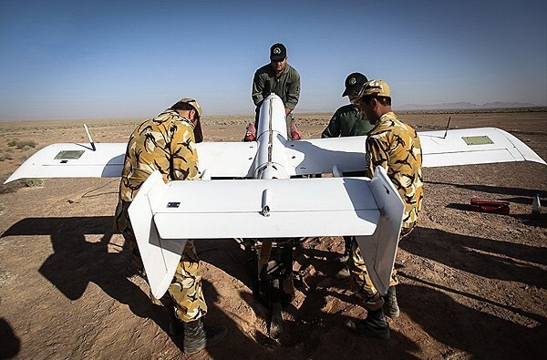 IRIAA and NEZAJA personnel prepare a Qods Mohajer-2 UAV for launch during the second day of NEZAJA's 'Beit al-Moqaddas' 26 exercises held at the Maranjab Desert in Isfahan Province, Iran.